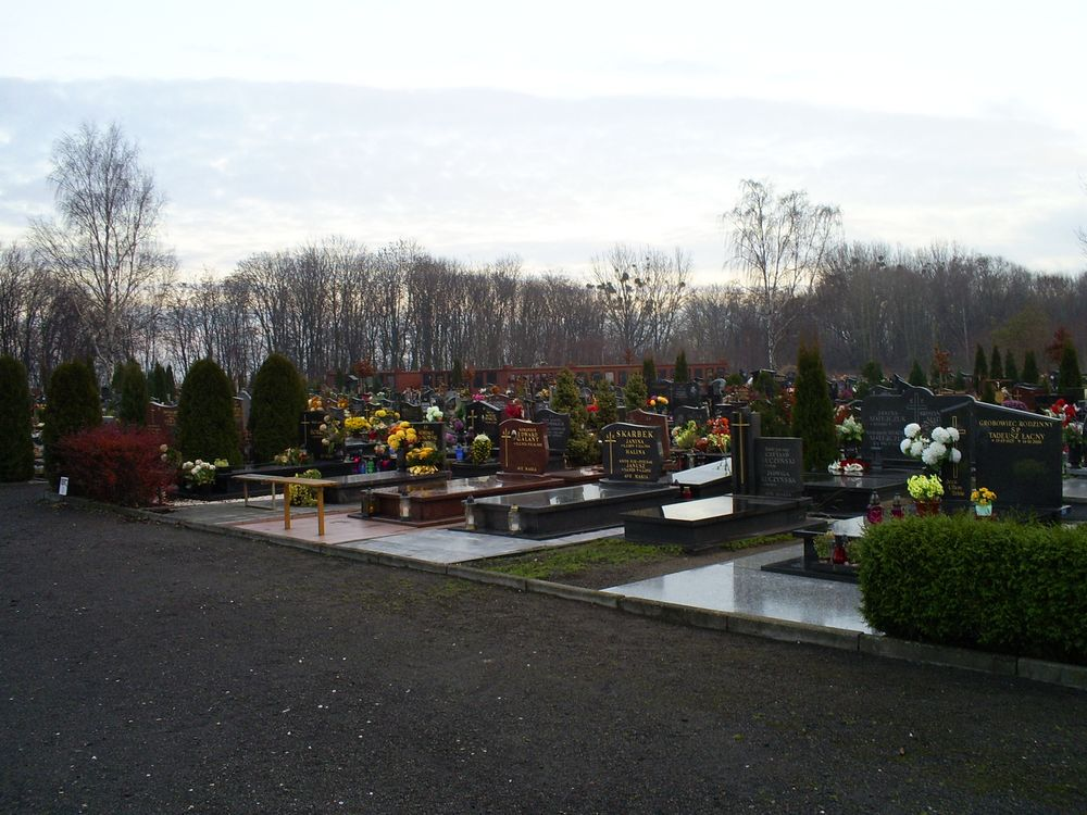 Polish Navy Cemetery in Gdynia Oksywie